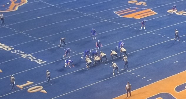 Boise State on defense during their game vs Utah State on October 1, 2016 at Albertsons Stadium in Boise, Idaho.